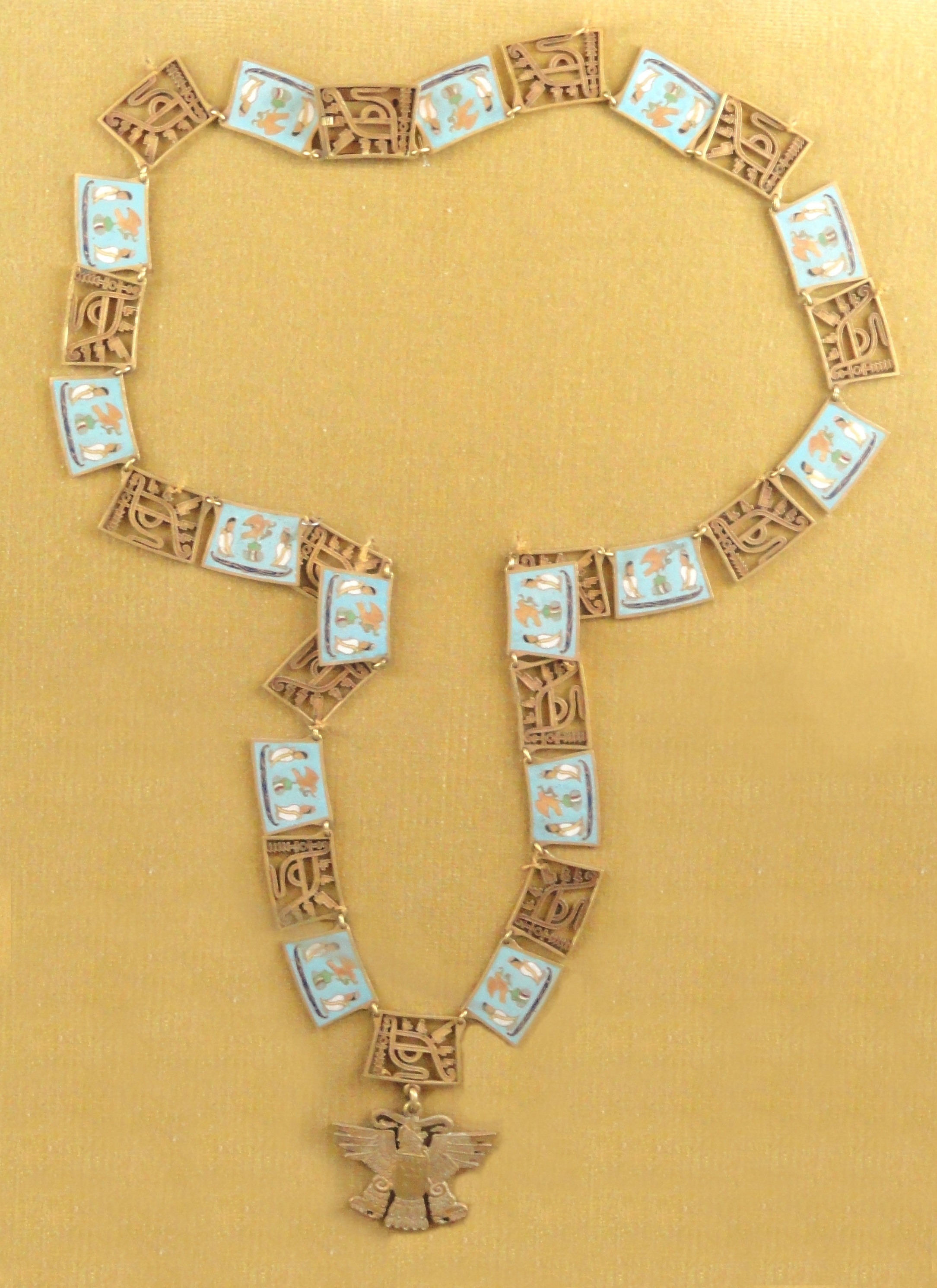 IExhibit in the Memorial JK, Brasília, Brazil. Image depicts the Grand Cordon (collar) of the Order of the Aztec Eagle (centre) and breast star of a Knight Grand Cross of the Order of the British Empire (right)